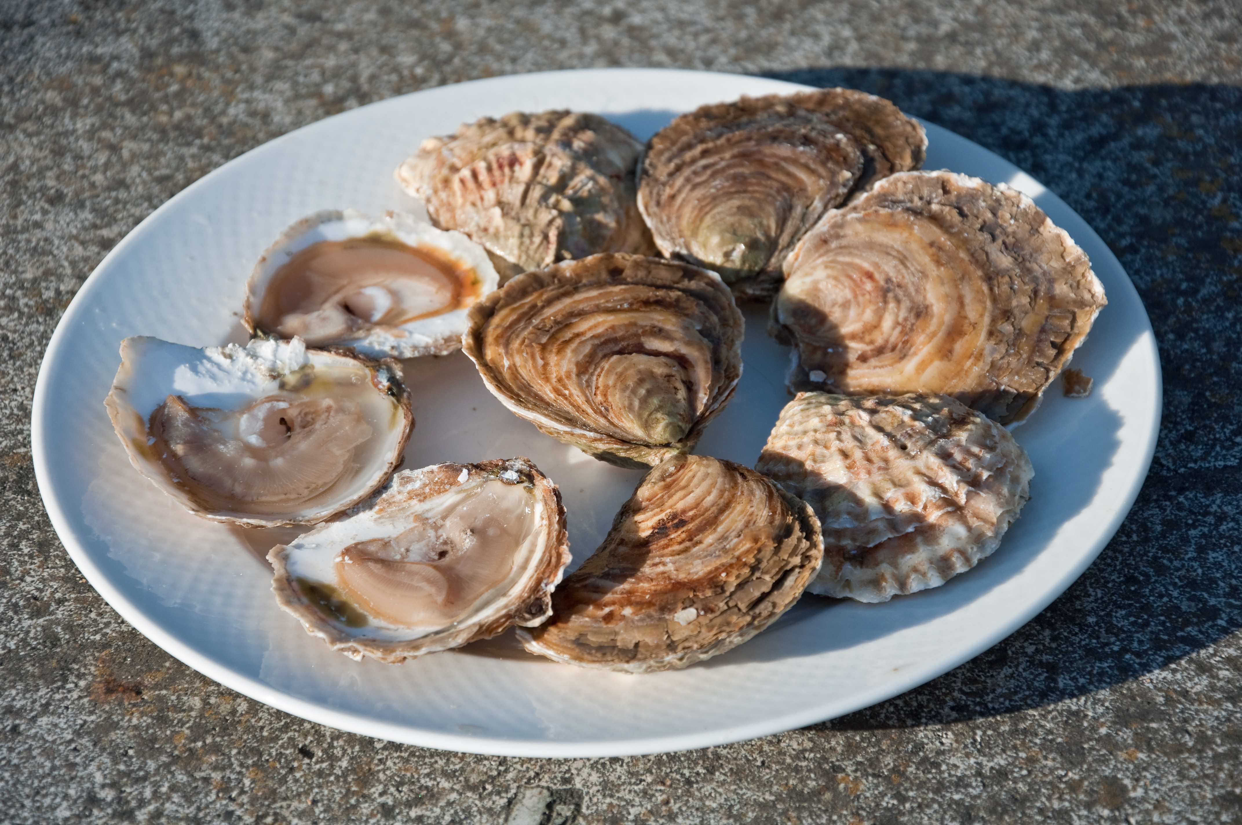 Flat oysters (Ostrea edulis) from Cancale in Brittany (France), locally called ‘belons de Cancale’.